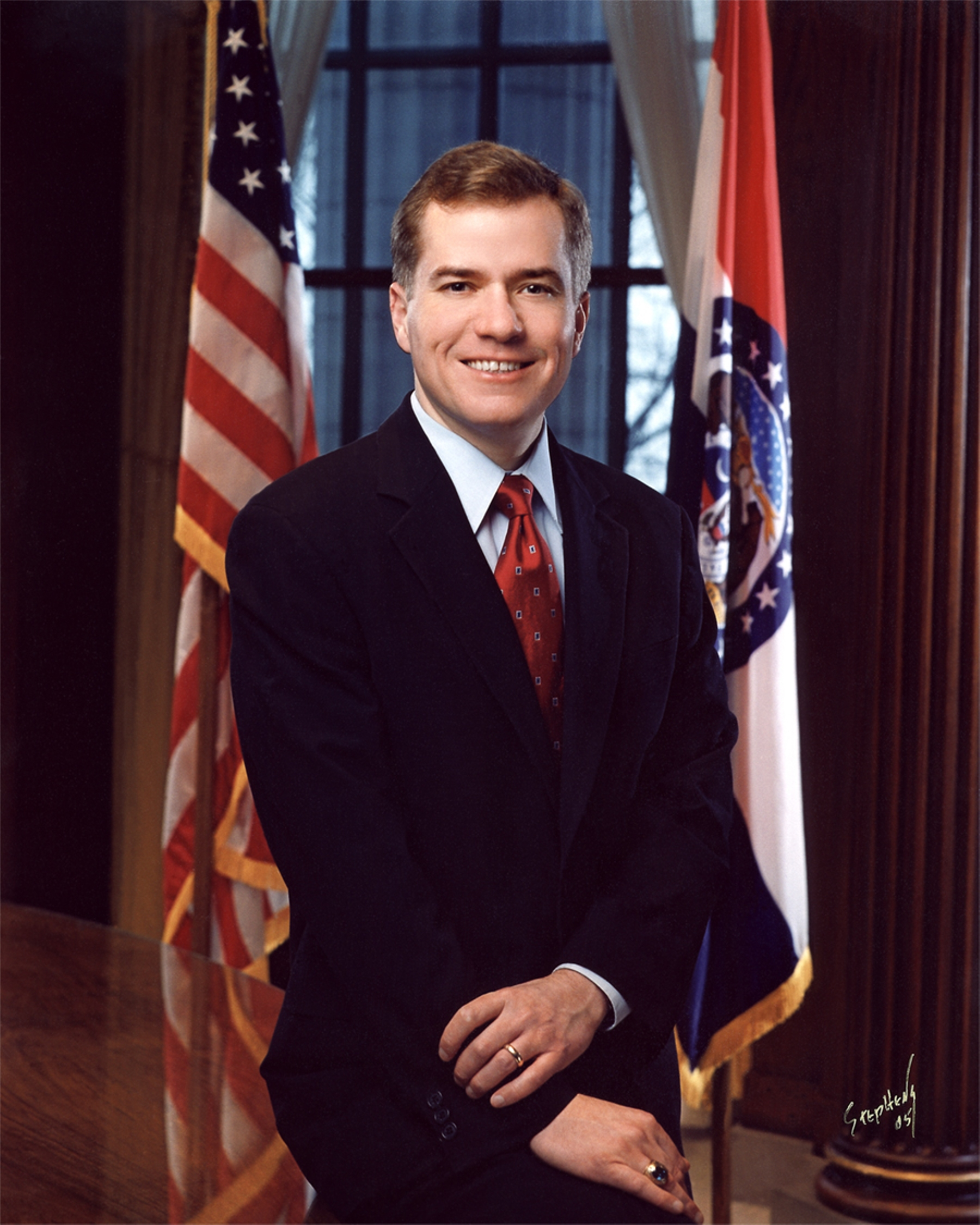 Matt Blunt, governor of Missouri.